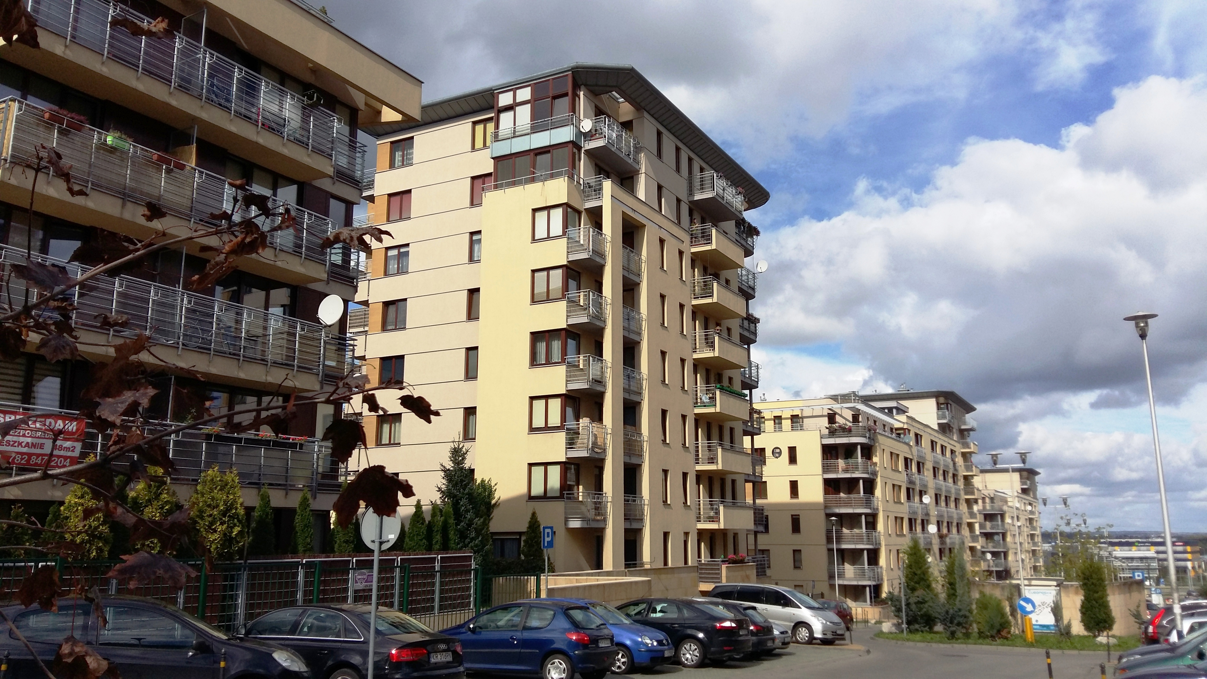 Osiedle Europejskie - buildings from 2000s, Ruczaj, VIII Dębniki, Kraków, Poland